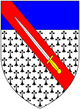 Arms of Gladwin, of Cold-Aston, temp. James I, afterwards of Edelstow and Tupton, later of Stubbing, Derbyshire: Ermine, a chief azure over all a bend gules charged with a sword argent hilt and pomel or. (Crest: On a mount proper a lion sejant argent gutteé de sang holding in his dexter paw a sword or (Lysons, Daniel and Samuel, Magna Britannia, Volume 5: Derbyshire, 1817, pp.75-99[1])